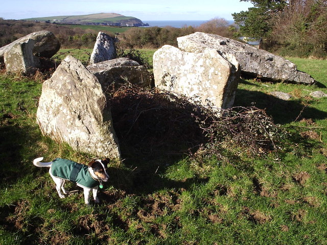 Cerrig y Gof chambered tomb. This is an unusual coastal tomb comprising several chambers, probably Bronze Age. Only one of the capstones is still in place. It has good sightlines to Carn Ingli and Pen Dinas (shown). The site is on private land beside the A487 but access, although not invited, is possible over a gateway with no indication that it is not permitted. November 2007: the stones have become partially hidden among a tangle of briars and bracken which reduces that visual impact of the monument. It will be a pity if it became completely lost from view.